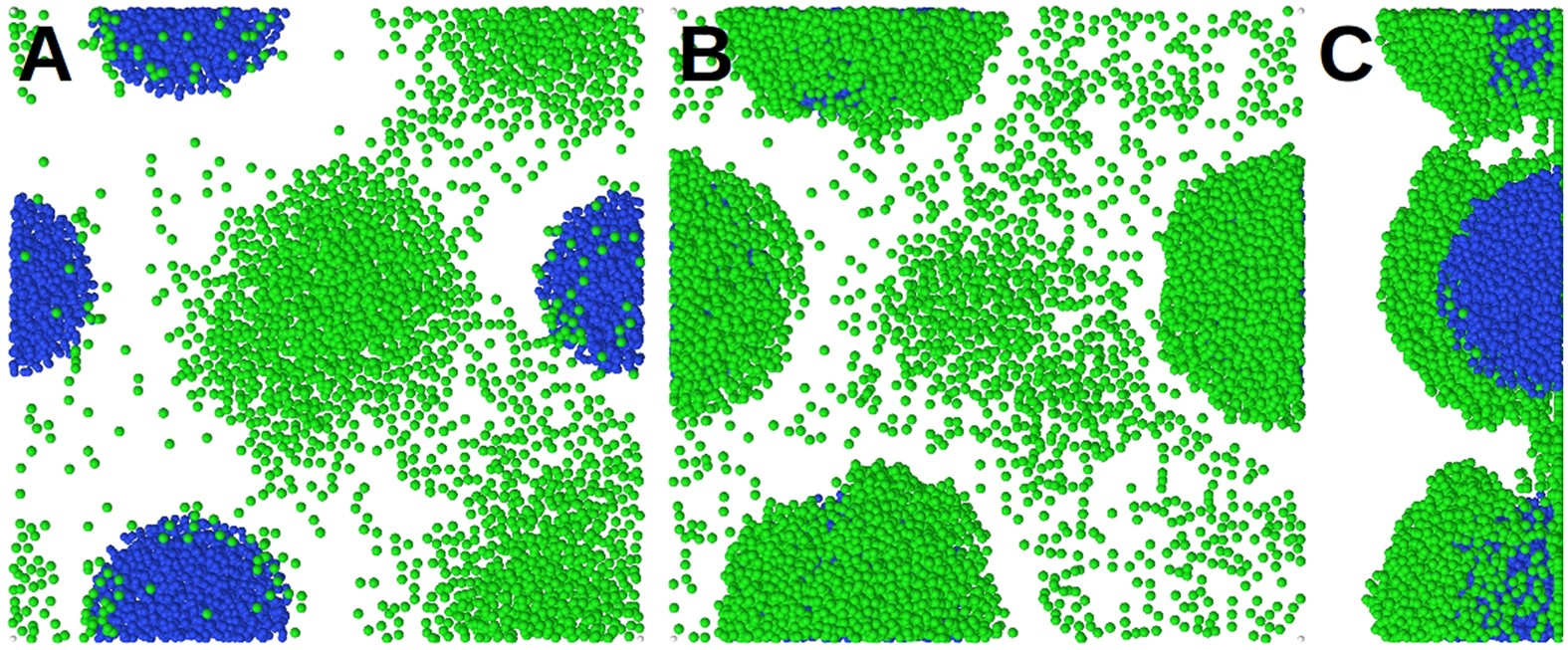 In-silico mushroom formation. (A) Initial growth and division of motile (green) and immotile (blue) cells after inoculation. The motile cells are repelled from stalks by nutrient depletion in the stalk’s vicinity. Motile cells move mainly in the inter-stalk area. (B) Because of further nutrient reduction at the bottom of the simulation box, immotile stalks stop growing and the motile cells migrate to the top of the stalks. (C) A side view of the biofilm in panel B reveals the cap formation on the stalks.